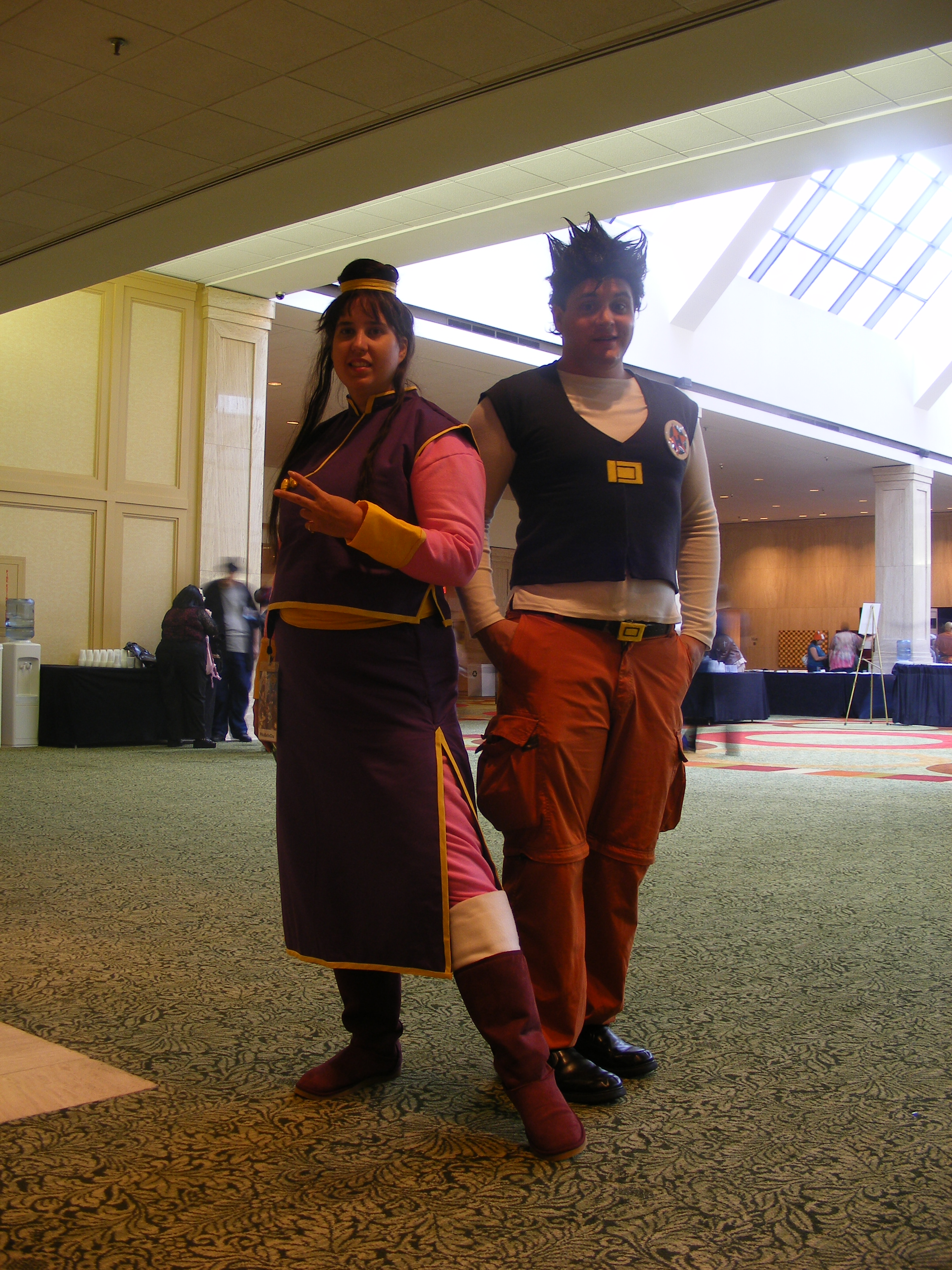 Cosplay - AWA15 - Chi-Chi and Gohan